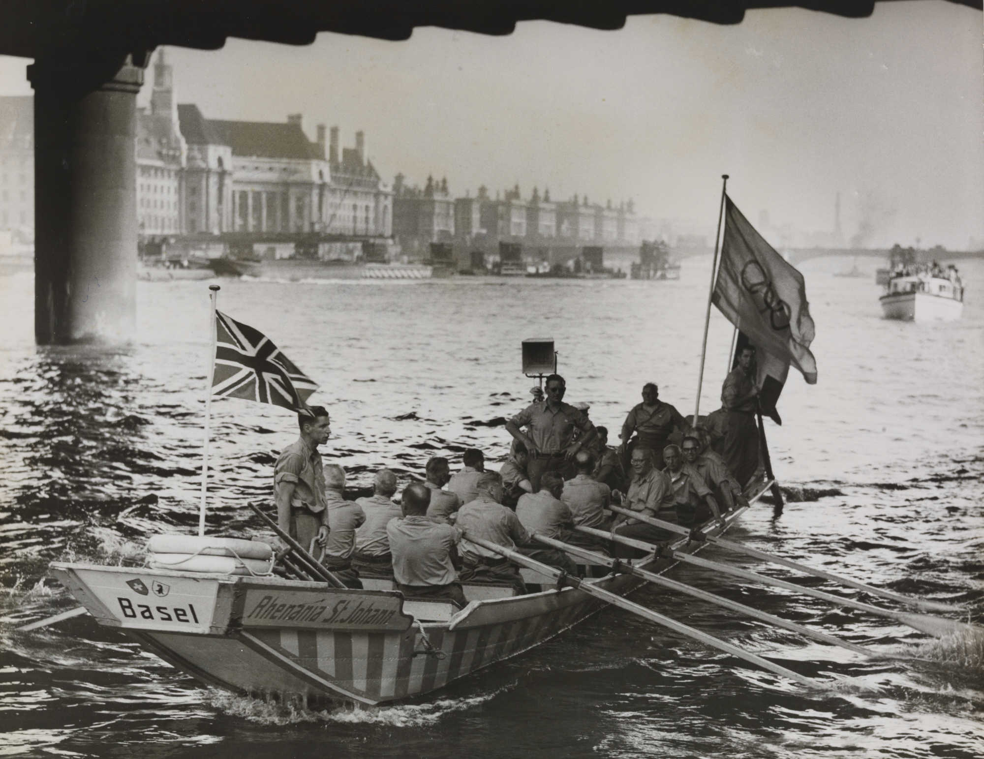 A Swiss longboat passing under Hungerford Bridge approaching Charring Cross Pier on 28 July 1948. The Swiss longboat arrived via Rotterdam from Basle with the Olympic Flag. Daily Herald Archive at the National Media Museum